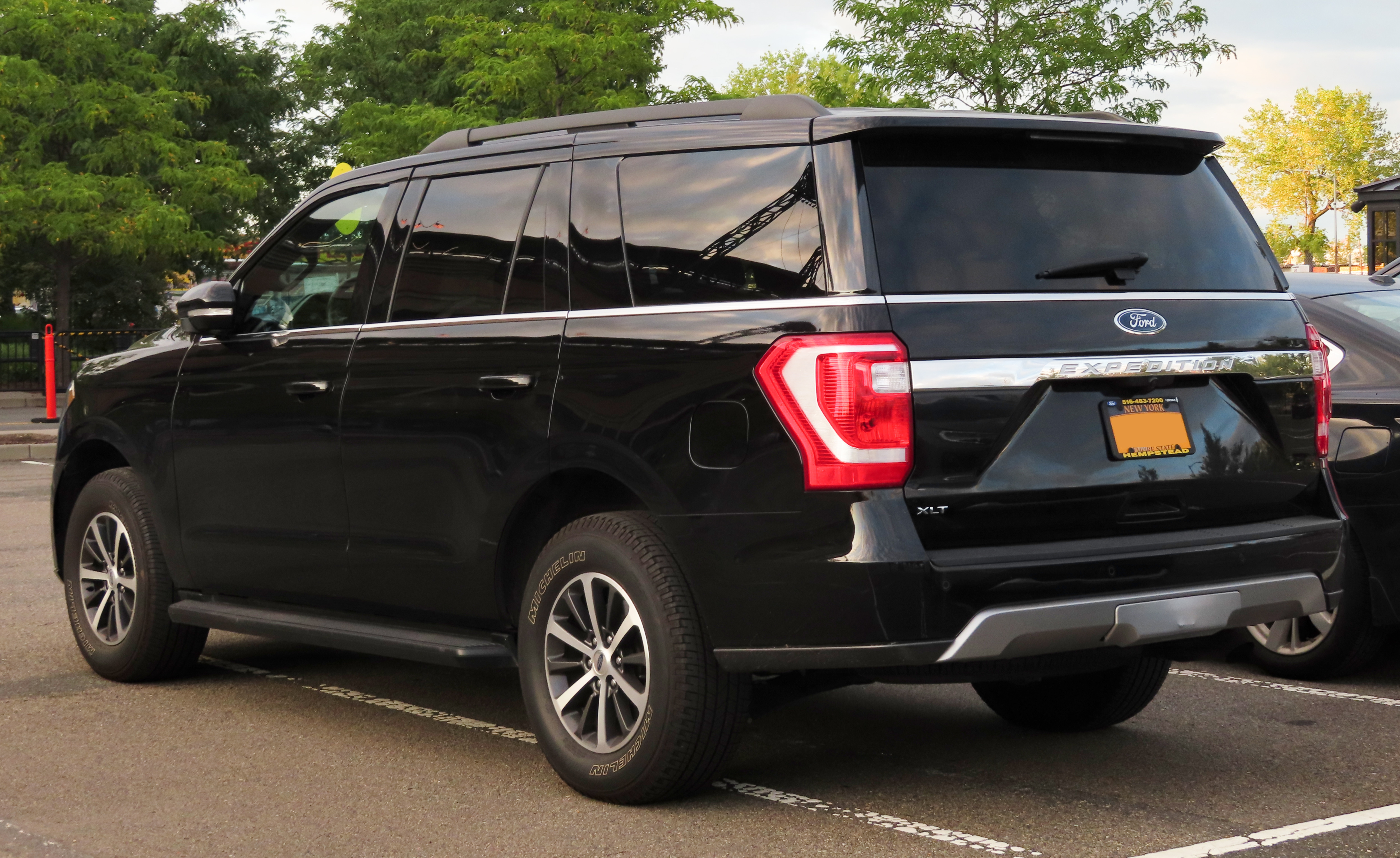 A 2018 Ford Expedition XLT photographed in Flushing, Queens, New York, USA